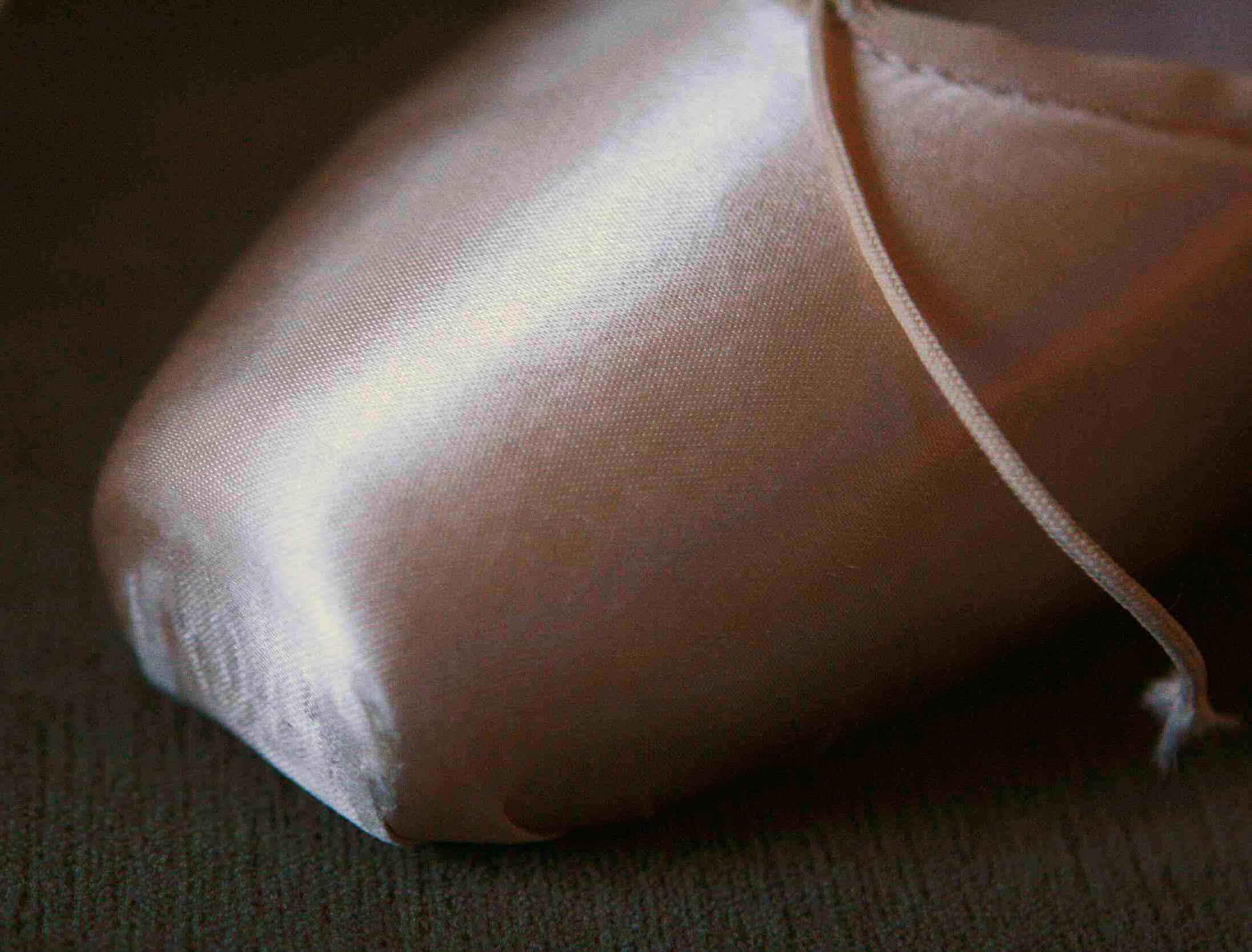 The "box" of a pointe shoe resides within the front end of the shoe. The box itself cannot be seen, but its shape is exposed by the tightly stretched outer fabric of the shoe.